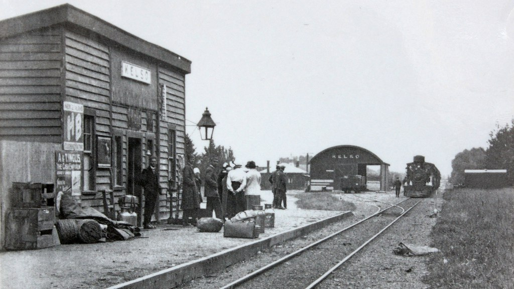 Kelso station, Tapanui branch line, New Zealand